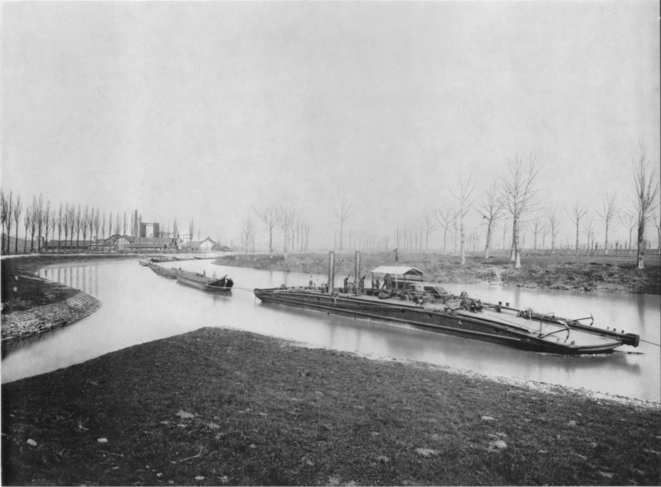 A Kettenschiff (chain ship) on the Neckar near Heilbronn